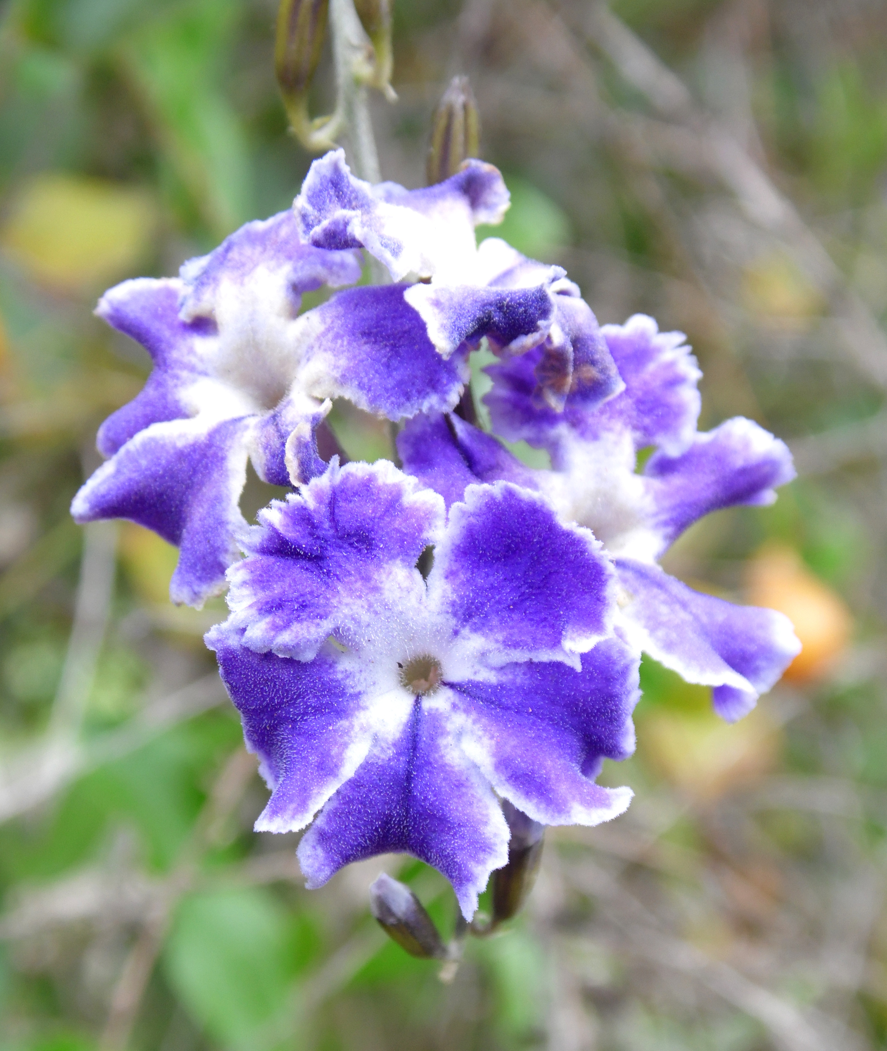 Duranta erecta in Parque Botánico de Maspalomas (Gran Canaria). Flowers